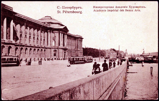 Saint Petersburg (Russia), Imperial Academy of Arts.